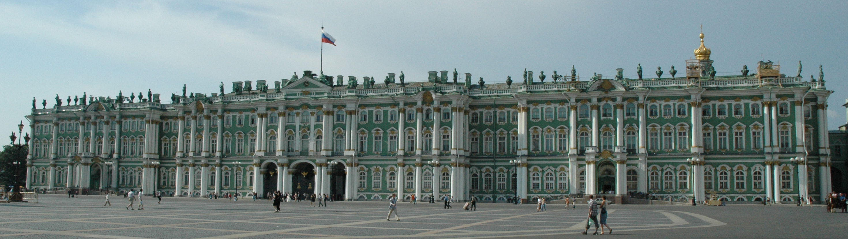 The main facade of the Winter Palace in Saint Petersburg